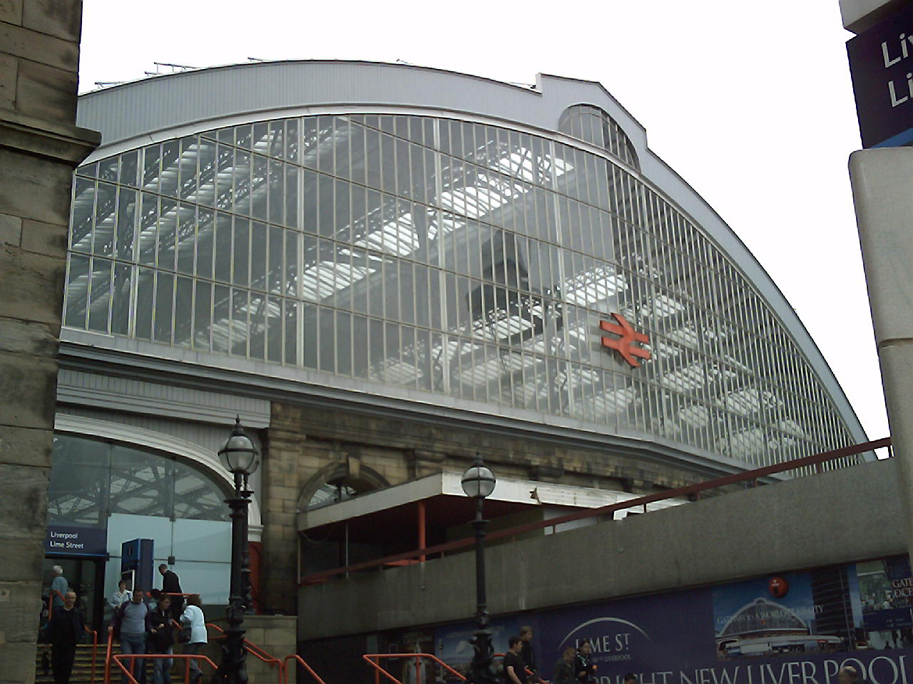 The main entrance to Liverpool Lime Street railway station